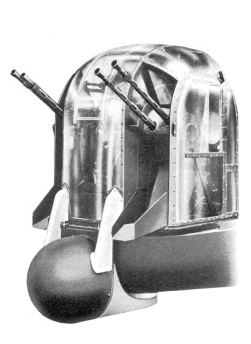 An illustration of the Village Inn AGLT Frazer Nash FN120 tail turret on a Lancaster .